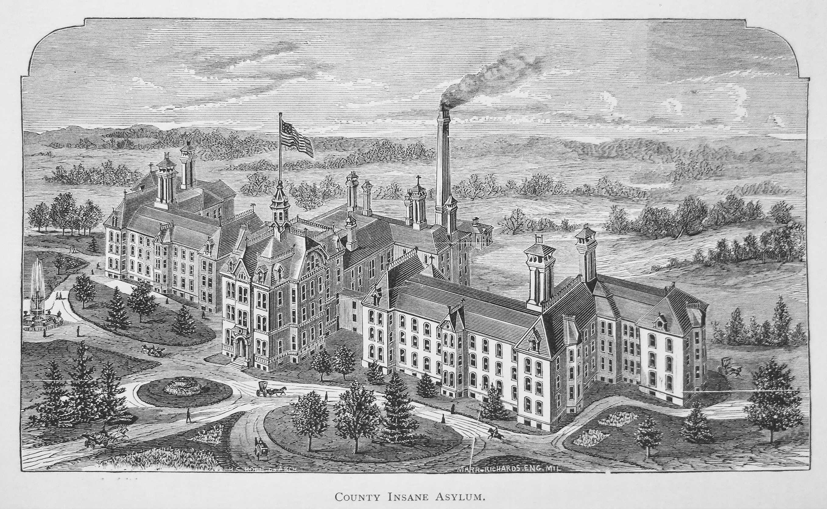 The County Insane Asylum in Milwaukee, Wisconsin, designed by E. Townsend Mix.